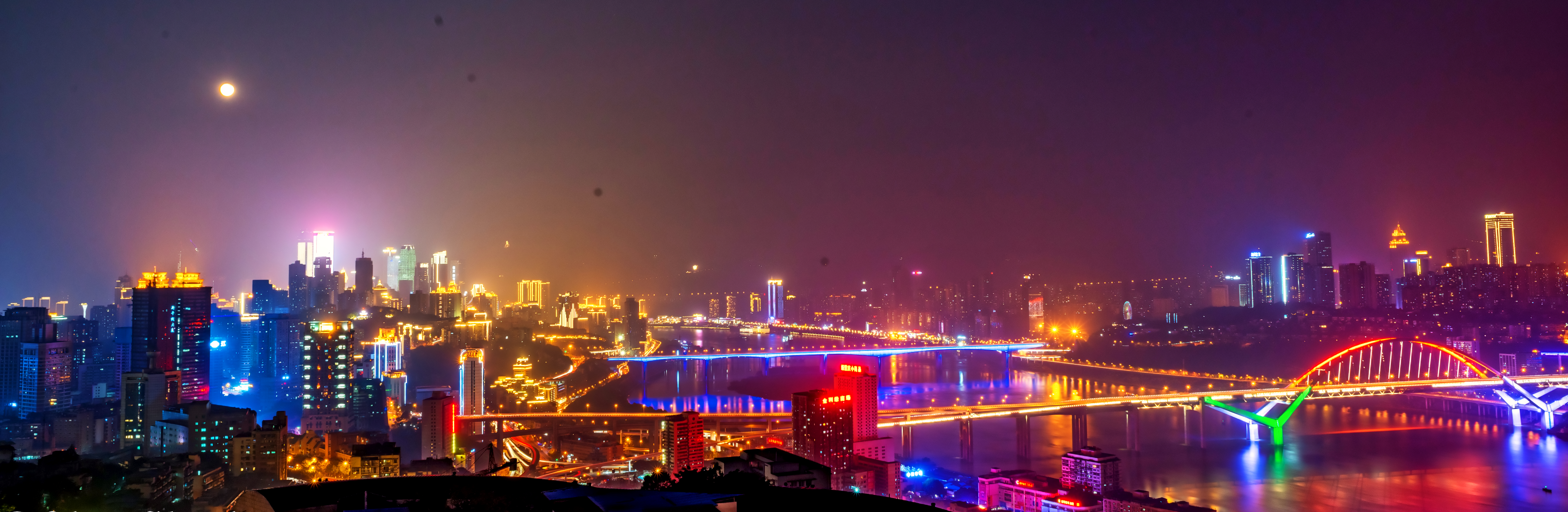 Panorama of Chongqing at night taken from Eling Park